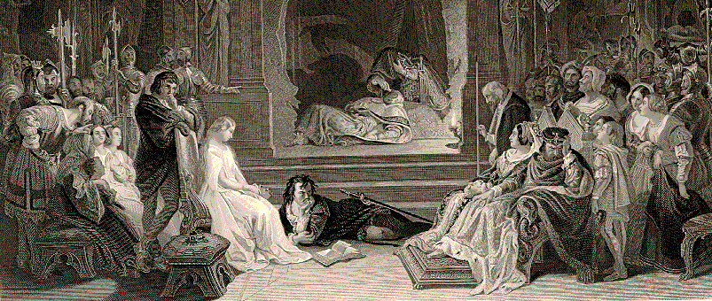 Illustration to The Works of Shakspeare, Imperial edition, NY 1875-1876. It depicts the revealing that Claudius murdered King Hamlet.